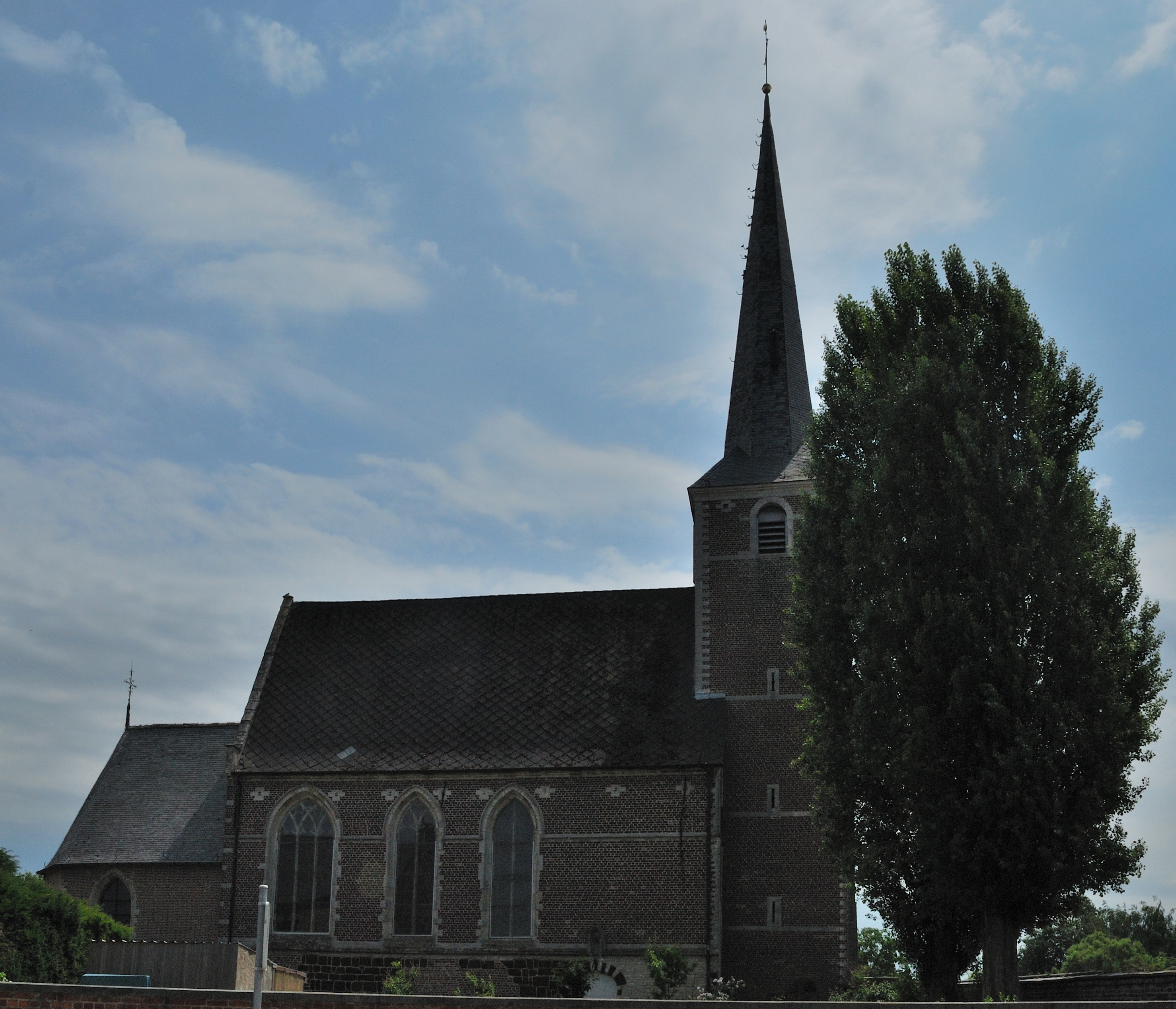 North (left) face of the Church of Saint Matthew at the village of Meensel, commune of Tielt-Winge, Belgium. Nikon D60 f=20mm f/14 at 1/800s ISO 200. Processed using Nikon ViewNX 1.5.2 and Gimp 2.6.6.